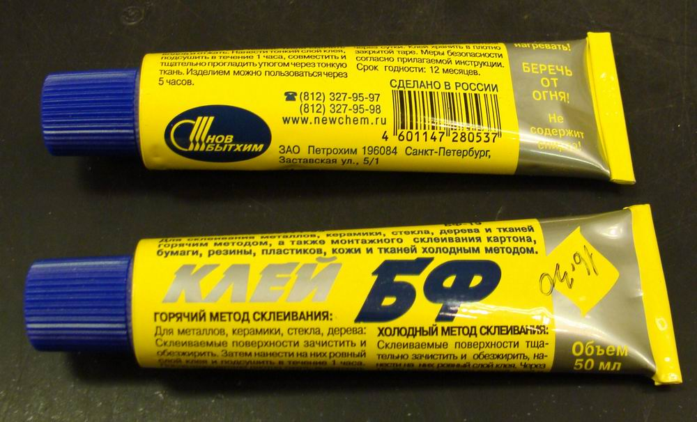 Adhesives (BF-19)